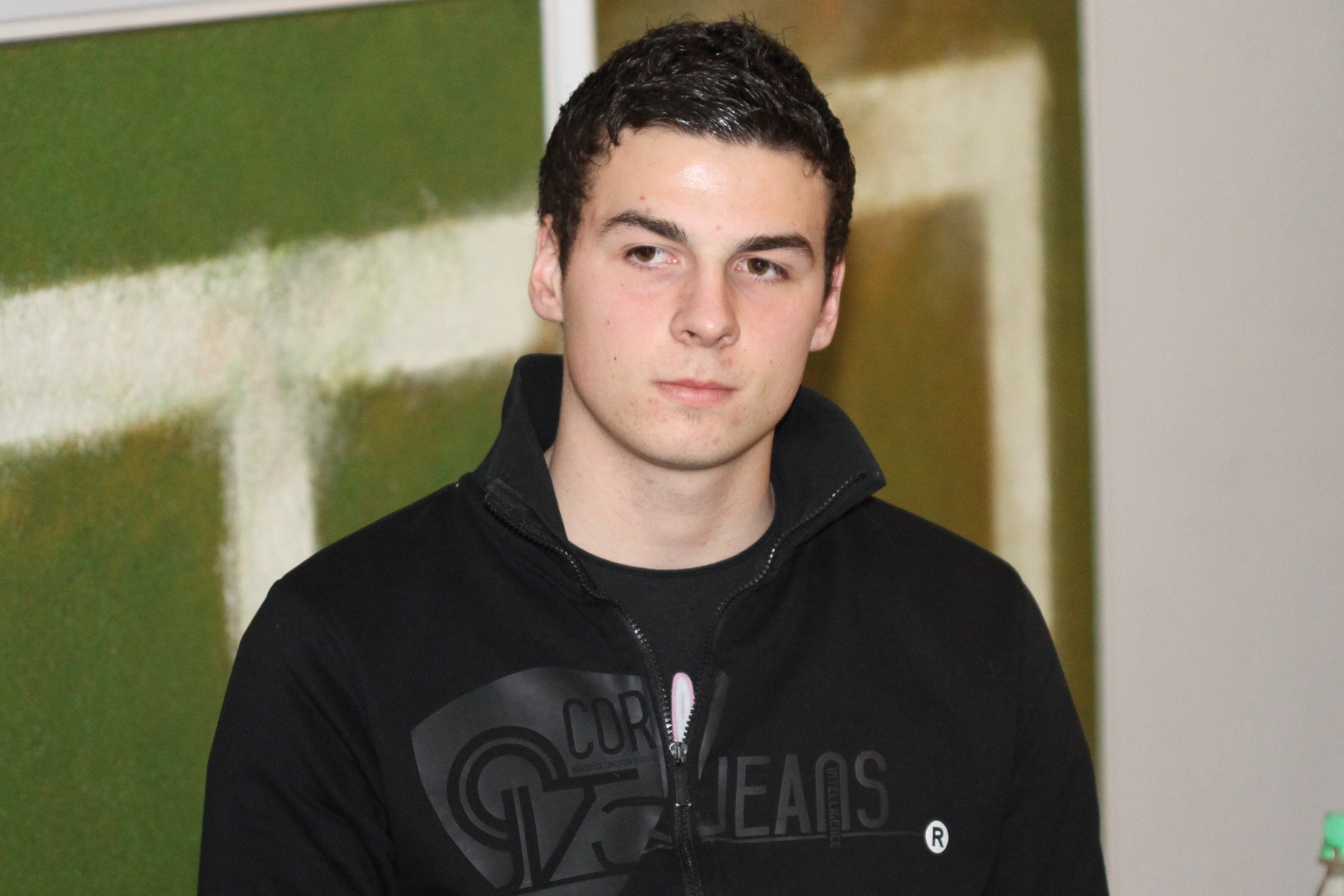 Eintracht Frankfurt´s player Julian Dudda during the event "The Stars of Tomorrow" at Eintracht Frankfurt Museum, Commerzbank Arena Frankfurt, in February 2010